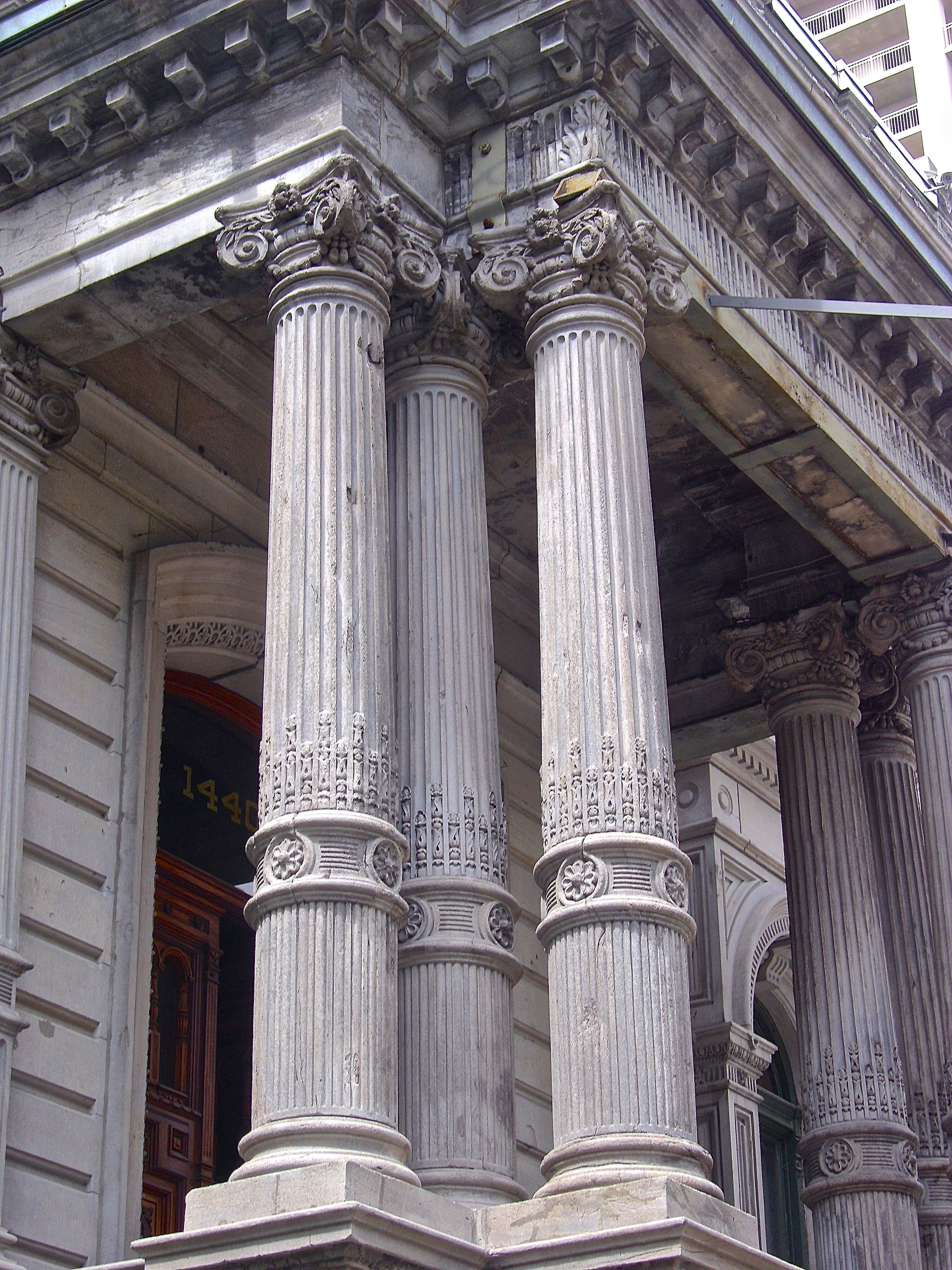 Detail of the colums, George Stephen House (1883), also known as the Mount Stephen Club Building, 1430–1440 Drummond Street, Montreal, Quebec, Canada.